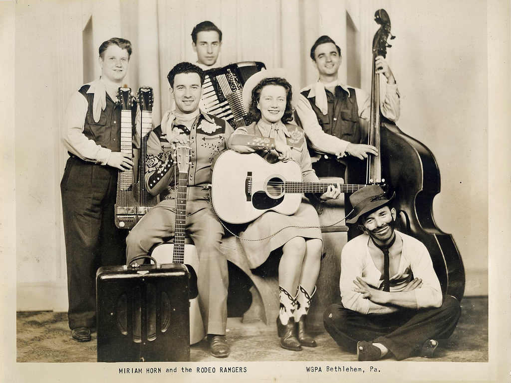 The country band Miriam Horn and her Radio Rangers on WGPA (Bethlehem, Pennsylvania).